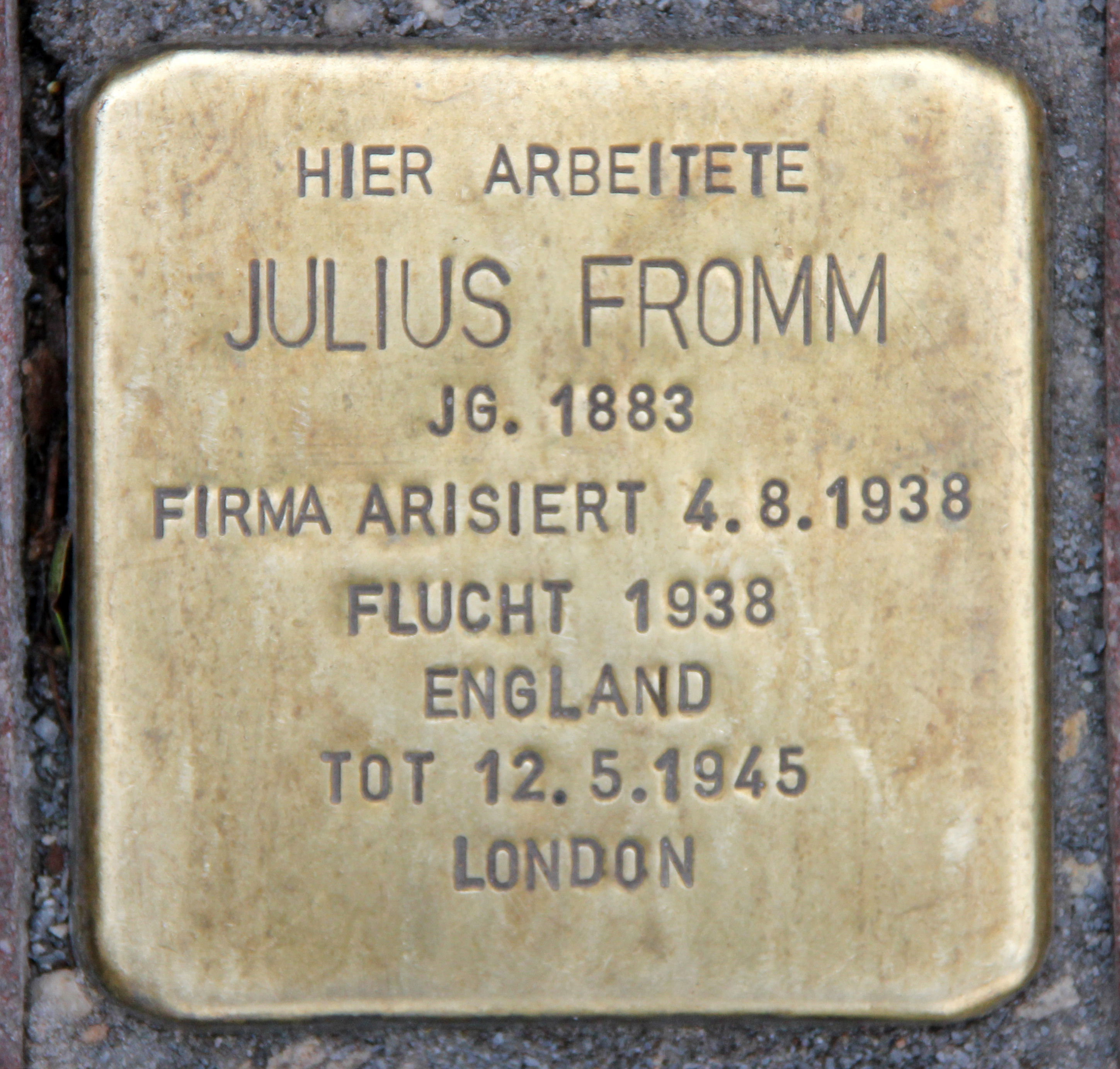 "Stolperstein" (stumbling block), Julius Fromm, Friedrichshagener Straße 38, Berlin-Köpenick, Germany